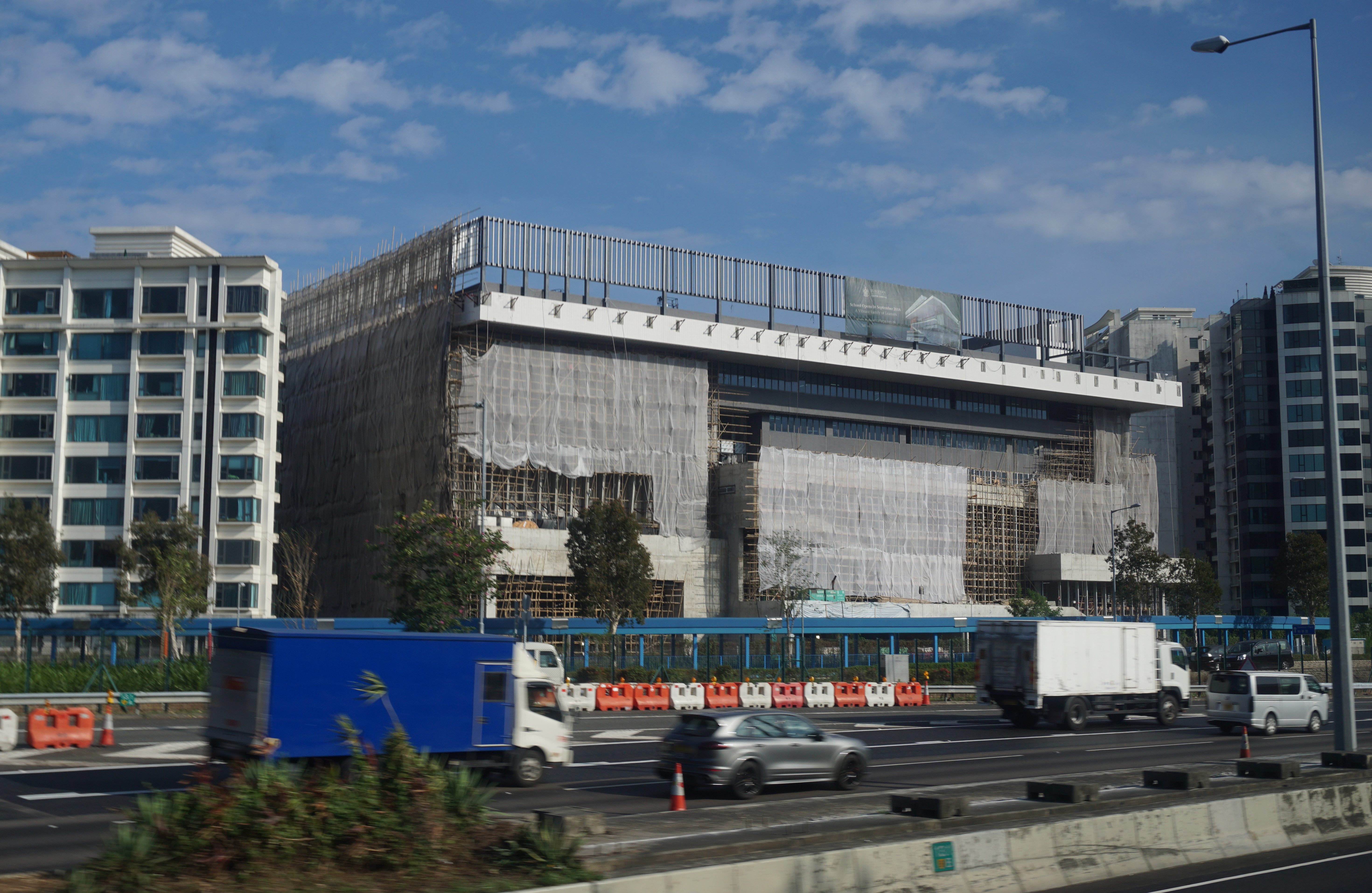 Malvern College in Pak Shek Kok, Hong Kong.